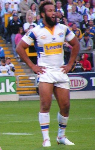 JJB